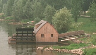 Ship mill on Weser River near Minden, Germany.